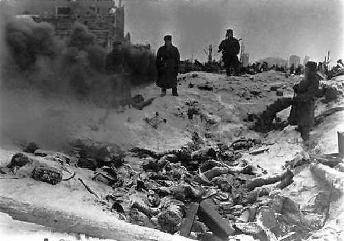 Stalingrad Dead Bodies